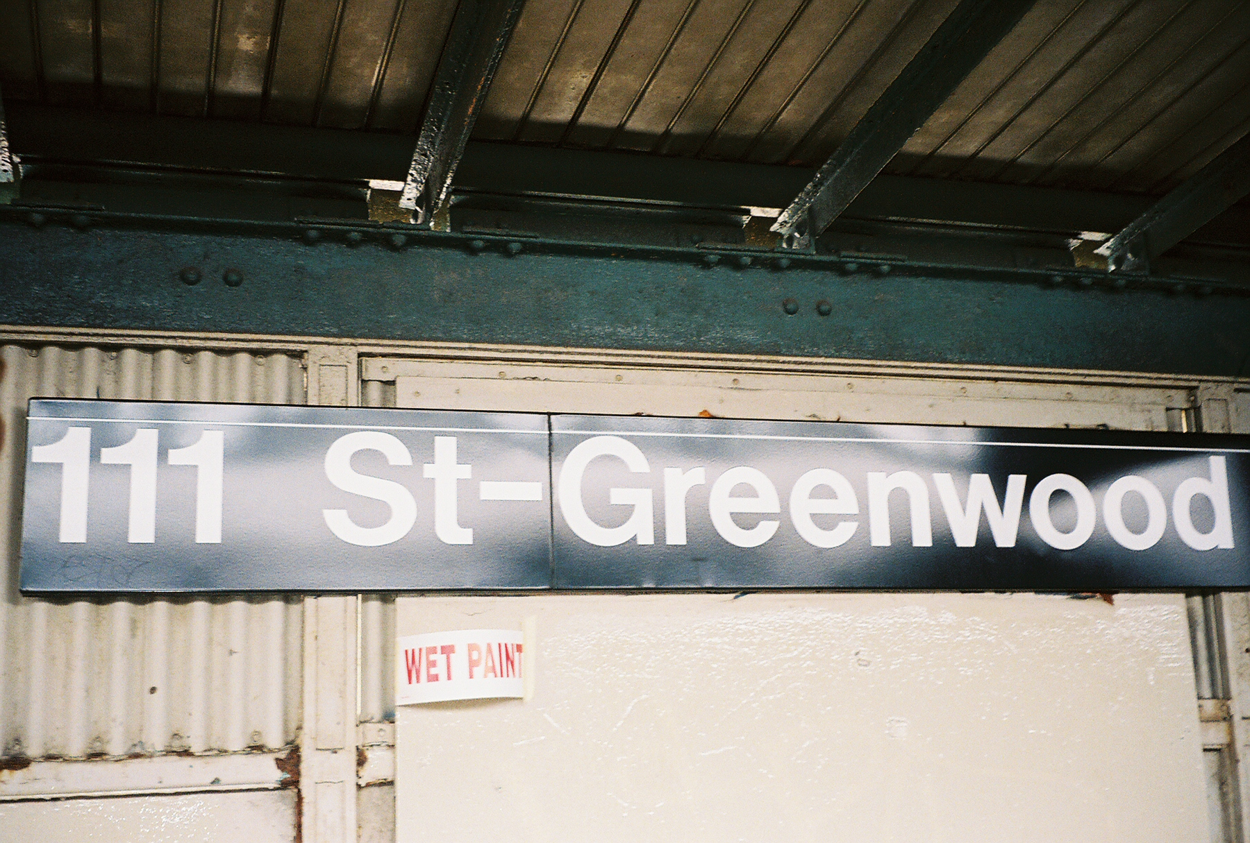 A photo of the 23rd Street subway station for Wikipedia:Wikipedia Takes the Subway